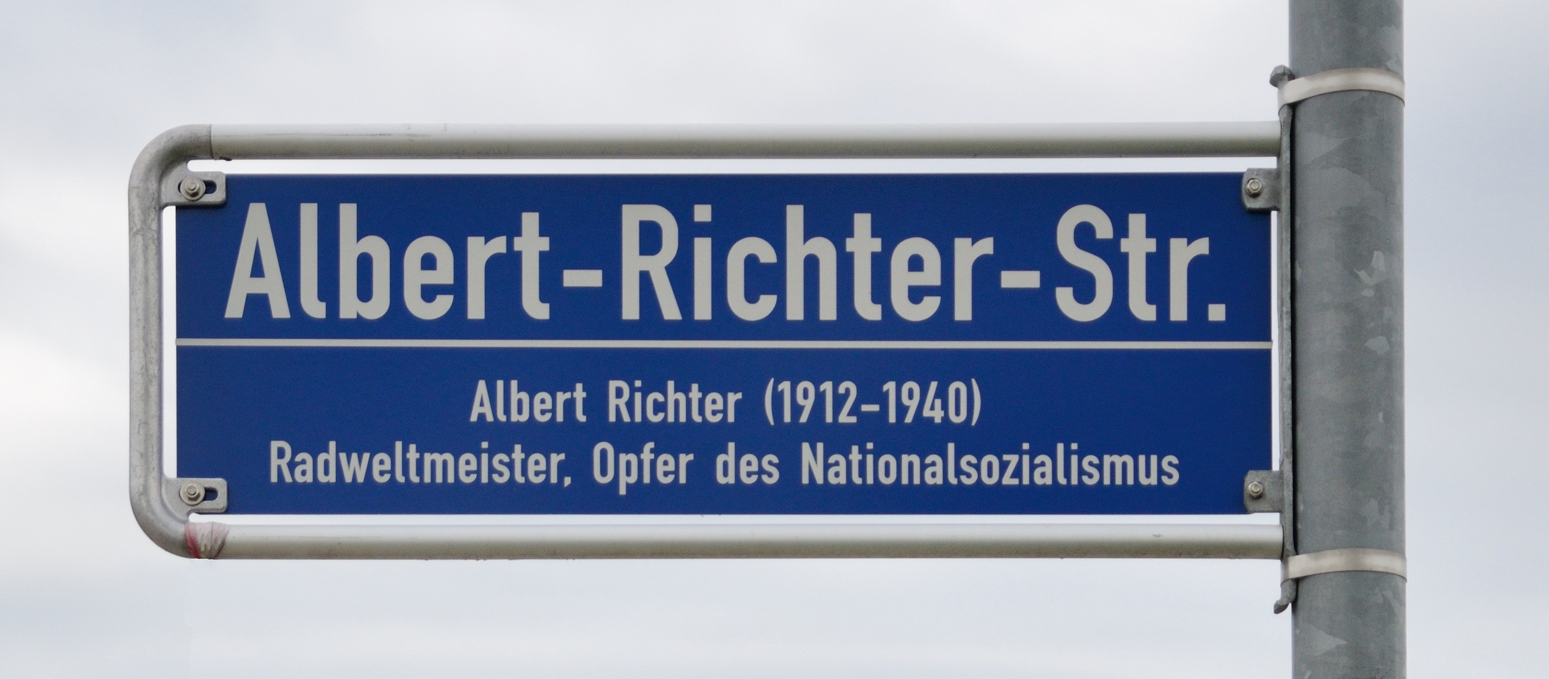 Lörrach: Street "Albert-Richter"